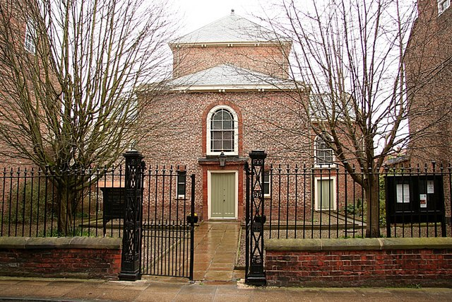 Unitarian Chapel, York in North Yorkshire